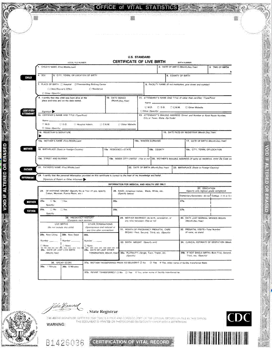 This image is imperative to the integrity of the article as it clearly illustrates the appearance of a standard long form birth certificate, although no such "U.S. Standard Certificate of Live Birth" actually exists. The image is in the public domain of the United States because it is a work of the United States Federal Government under the terms of Title 17, Chapter 1, Section 105 of the US Code.